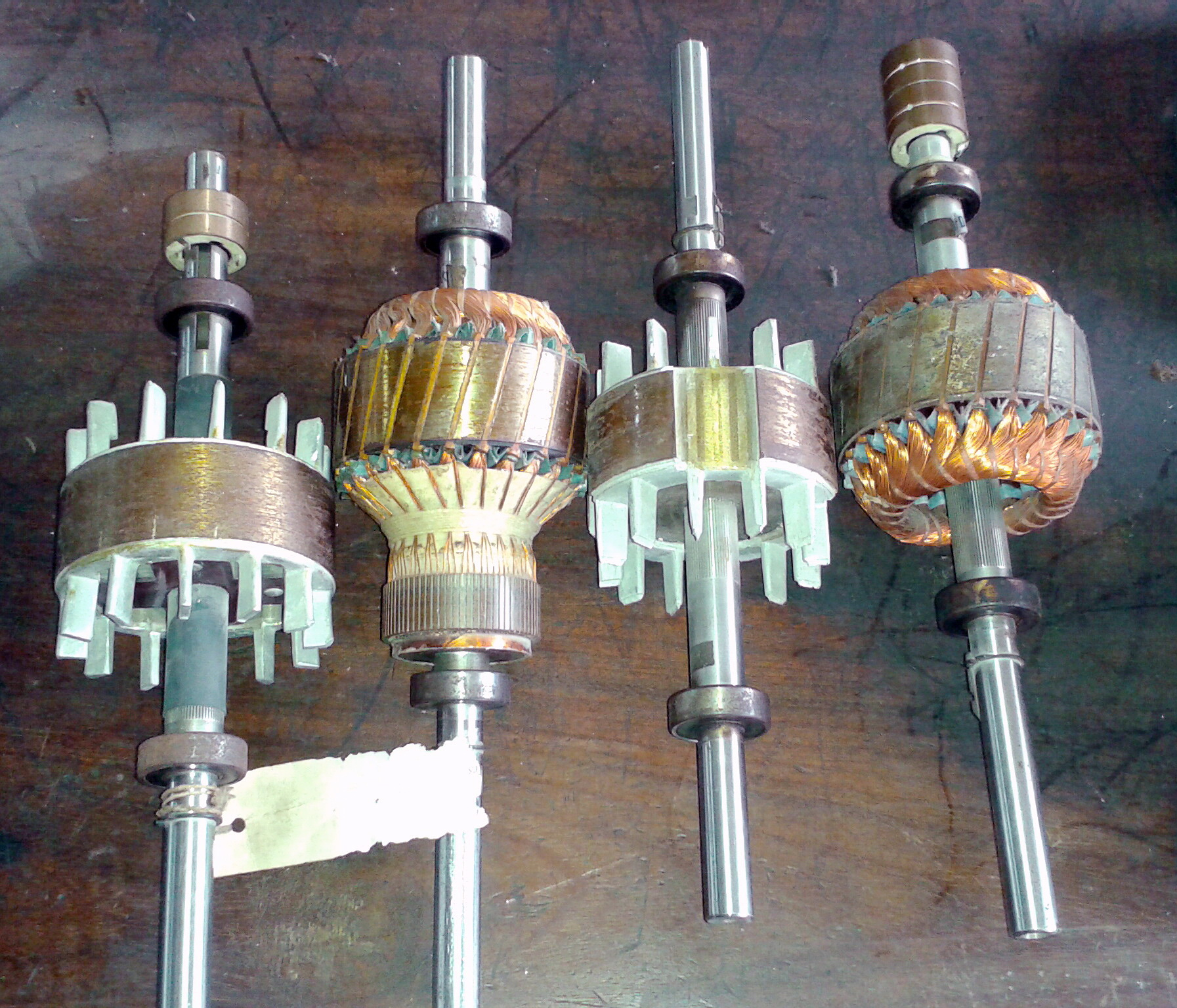 Selection of various motor rotor at the laboratory of Training Institute for Chemical Industries, Palash, Narshingdi.